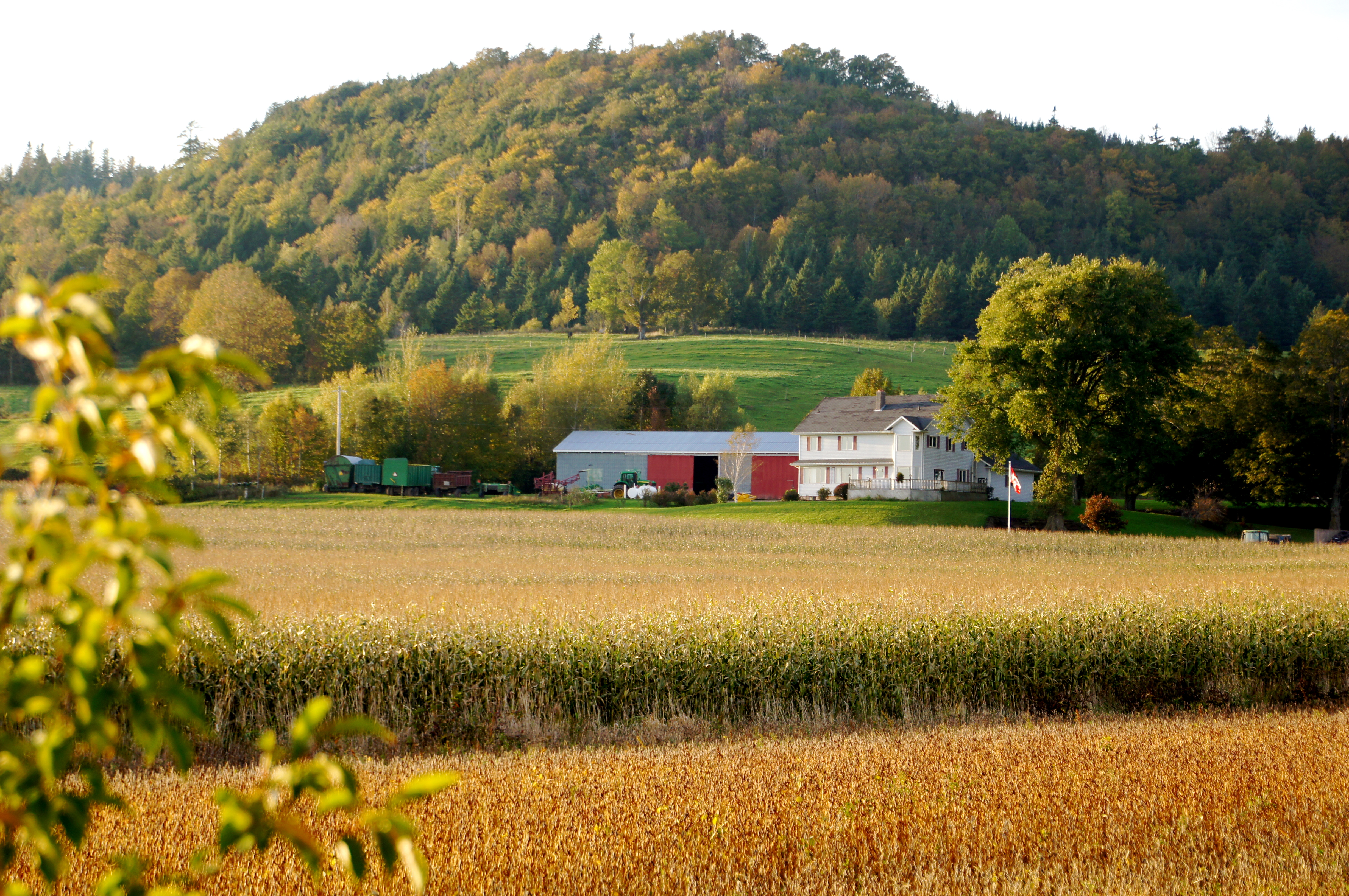 Autumn in the Annapolis Valley of Nova Scotia with a view of the North Mountain at Grafton.